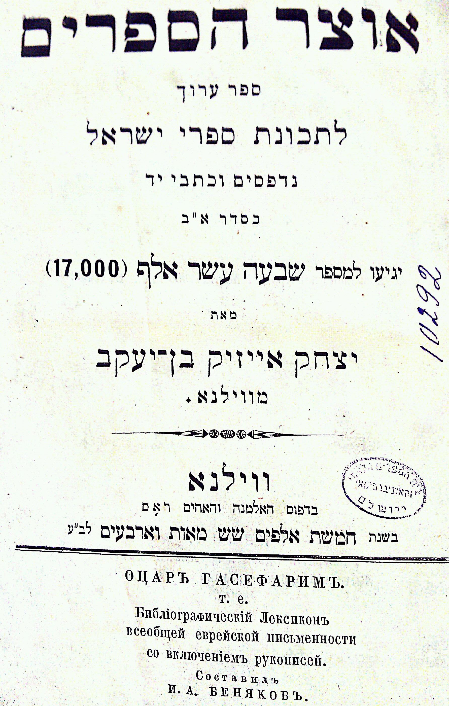 Otsar Ha-sefarim vover by Isaac Benjacob